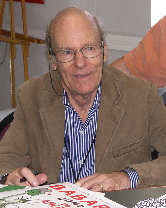 Laurent de Brunhoff at the 2008 Texas Book Festival, Austin, Texas, United States.